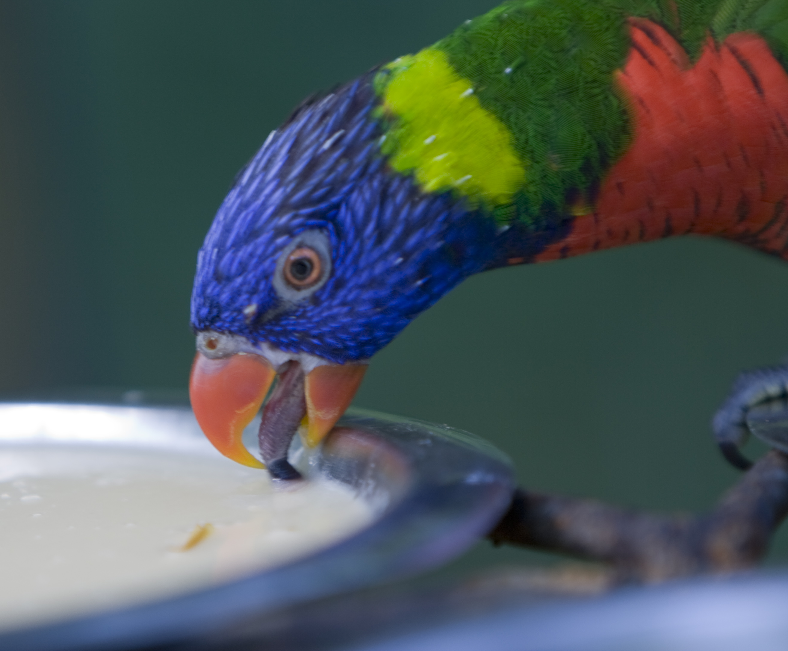 Rainbow Lorikeet (Trichoglossus haematodus) drinking at Randers Regnskov Zoo, Denmark.